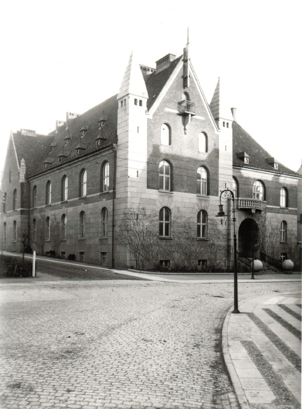 The building society's (Kreditforeningen af jydske Landejendomsbesiddere) headquarters in Sct. Mathias Gade 1-3 in Viborg photographed in 1907. Erected 1906 from drawings by Hack Kampmann.